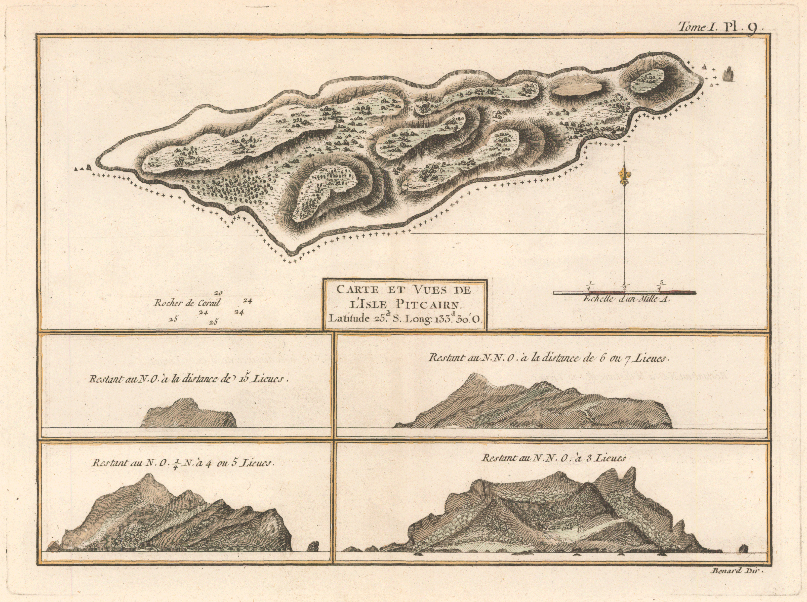 Map of Pitcairn Island, by expedition of James Cook